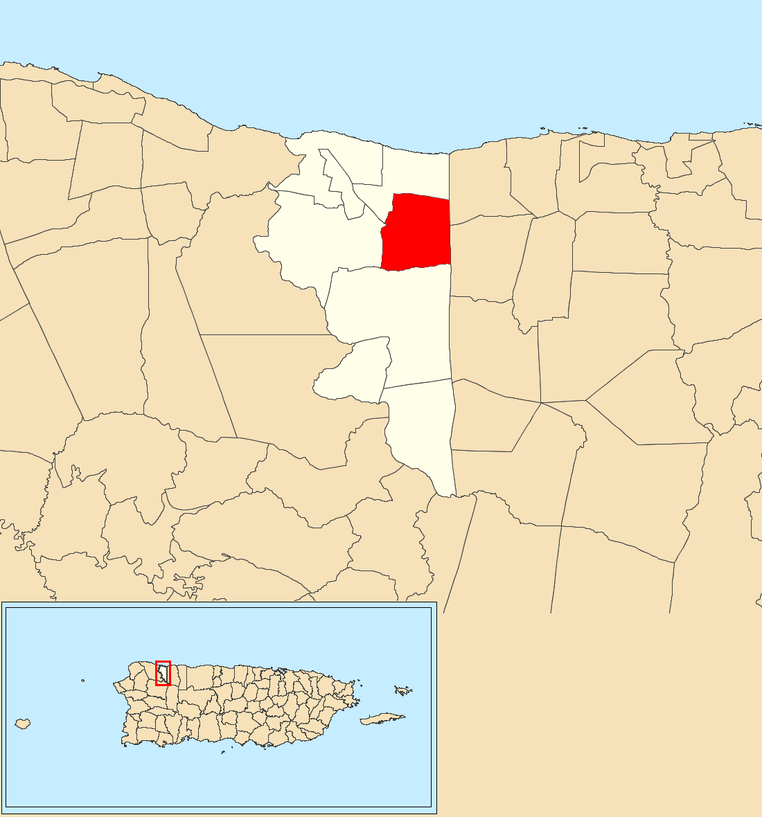 Cocos, Quebradillas, Puerto Rico locator map